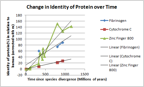 This graph was made using calculations of m and n where n is 100-% identity of a protein and m=-ln(1-n/100)*100. Identity percentages were taken from NCBI.